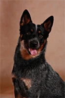 Австралийская пастушья собака из питомника Дингостар